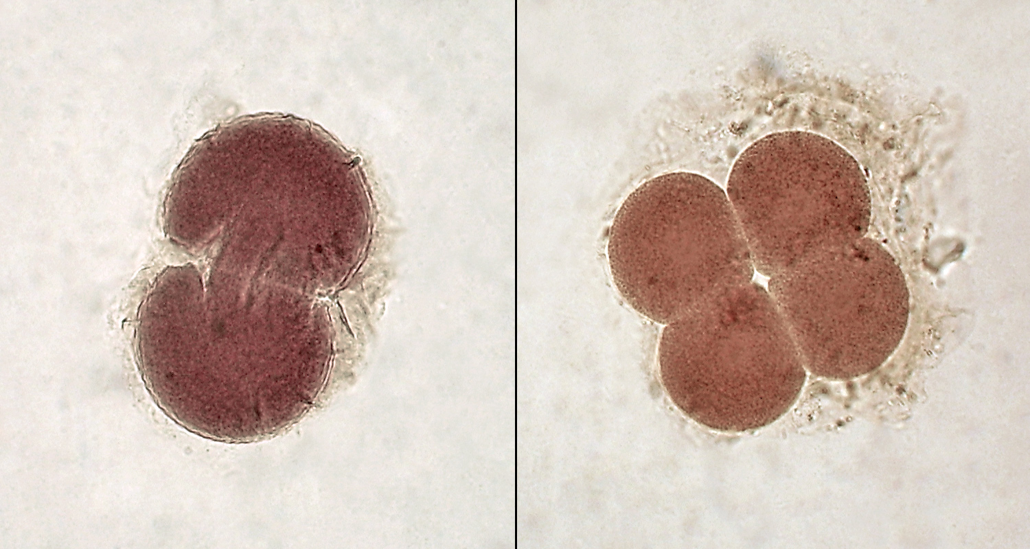 Lancelet's embryos, 2 and 4-cell stages